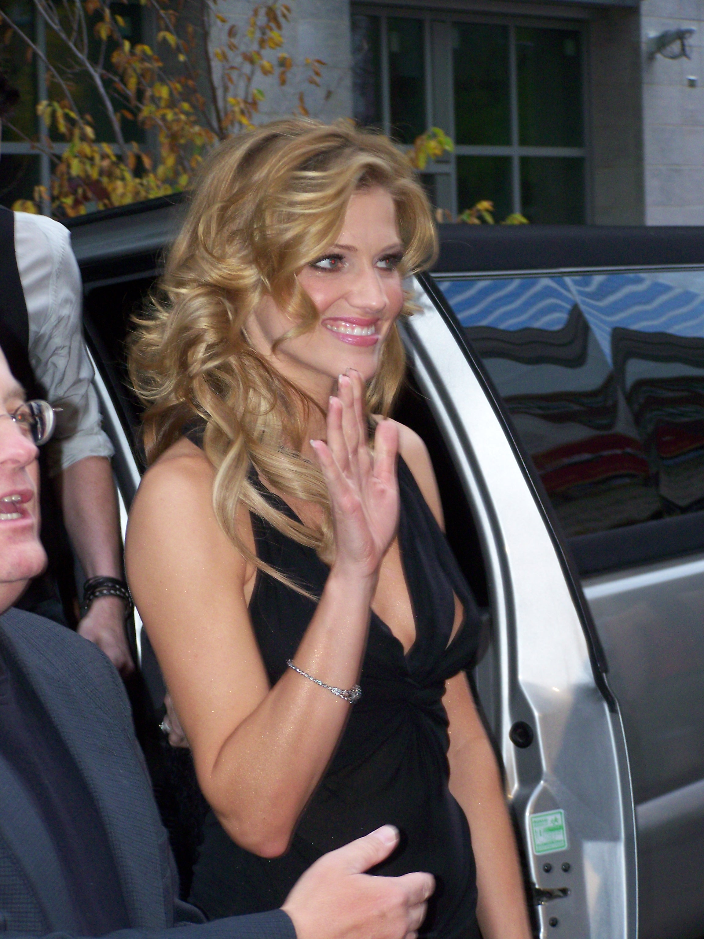 Tricia Helfer steps out on the red carpet during the Calgary International Film Festival. Helfer was attending the gala showing Walk All Over Me, which she stars in. The film was shown at the Uptown Stage at 612 8th Avenue SW, Calgary, Alberta, Canada.